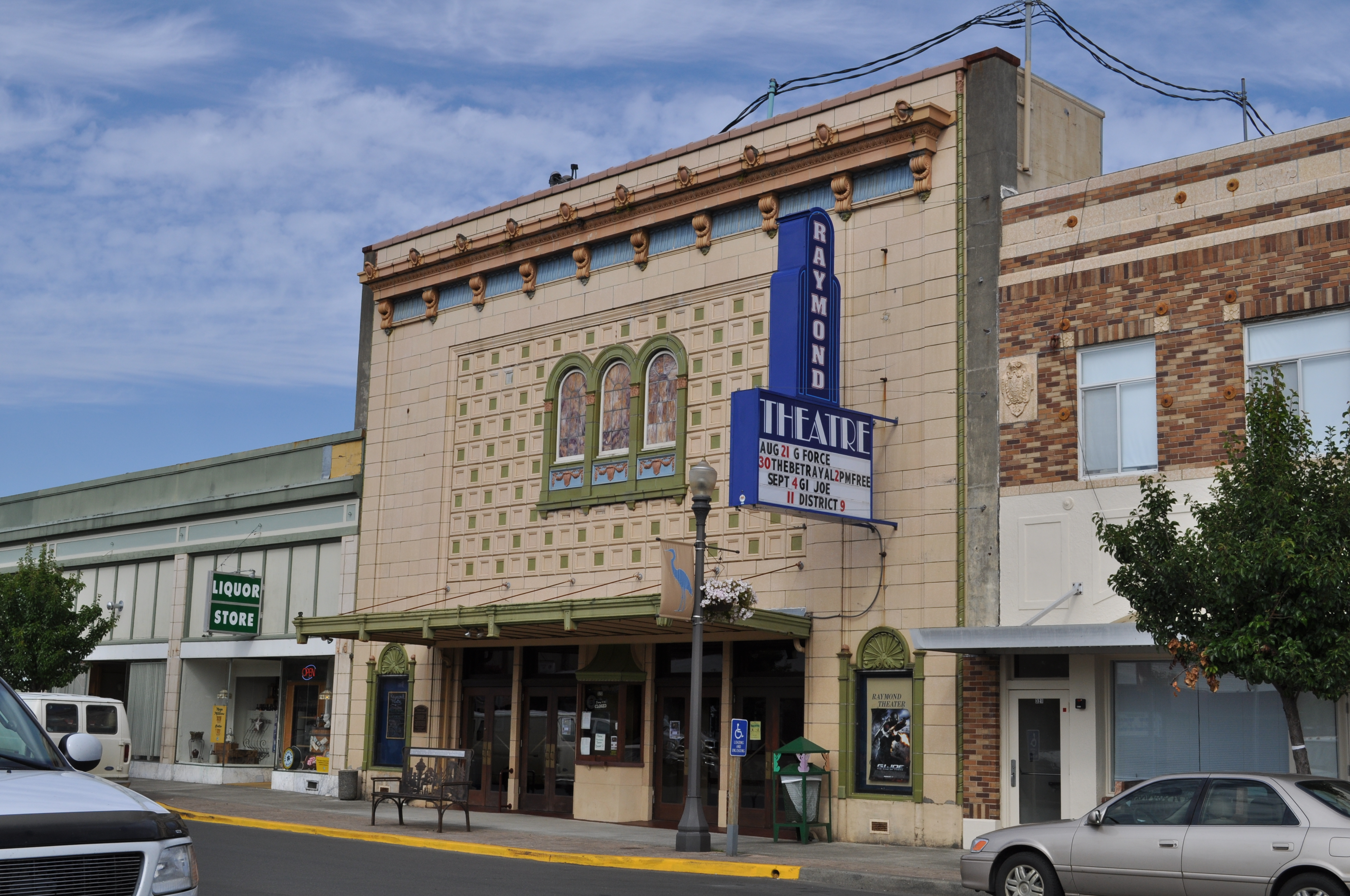 Raymond Theatre, 325 N. Third St., Raymond, Washington, USA.